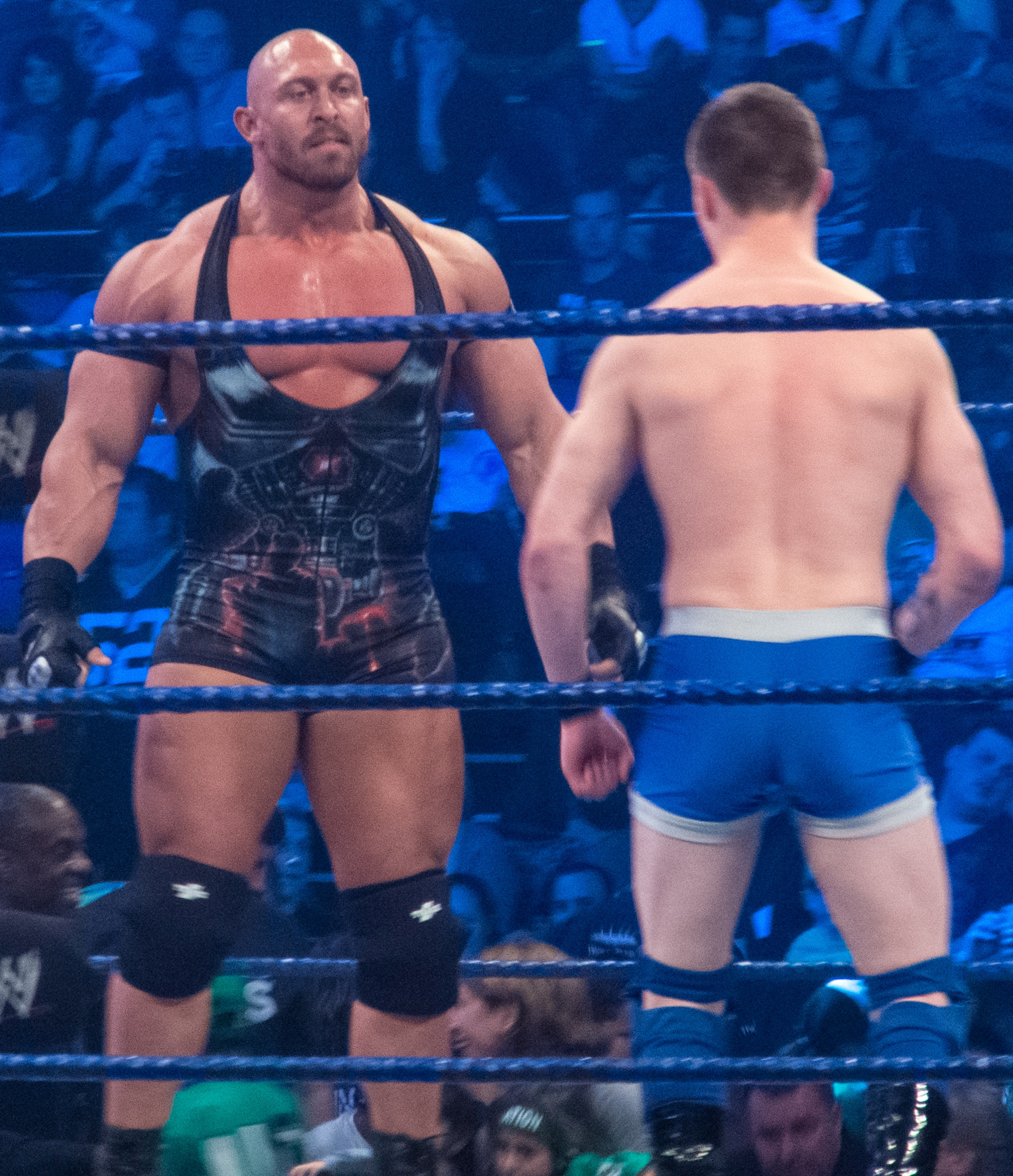 Professional wrestler Ryback before a squash match, designed to easily beat his opponent.